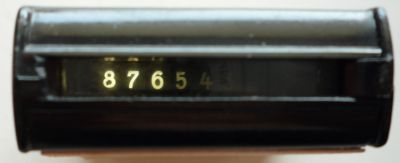 scale of an optical exposure meter